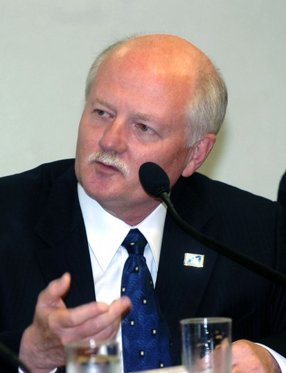 Timothy Mulholland: guilty or not guilty?